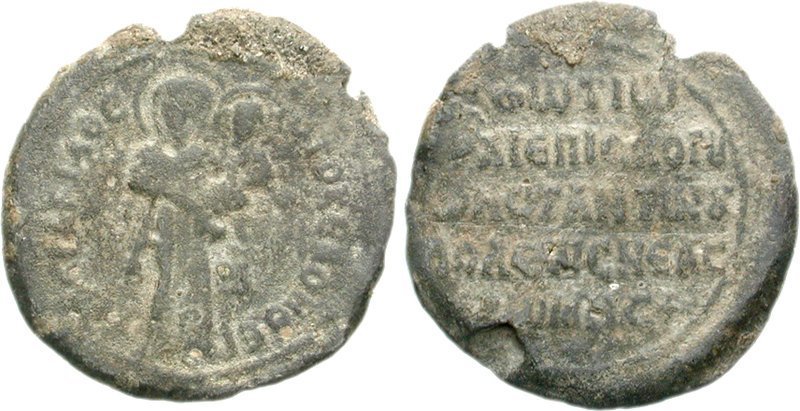 Photios. Patriarch of Constantinople, 858-67 and 877-86. PB Seal (38mm, 25.88 g, 12h). ΥΠΕΡΑΓΙΑ ΟΔΗΓΗΤΡΙΑ, the Theotokos Hodeghetria, standing facing, wearing chiton and maphorion, holding the child Christ in her left arm / ΦΩΤΙΩC ΑΡΧΙΕΠΙCKOΠΟC ΚΩΝCTANTINOYΠΟΛΕΩC NEAC ΡΩΜΗC in five lines. BLS II 7a var. (rev. legend break); DOCBS -; Seyrig -; Vatican 152 var. (reverse)